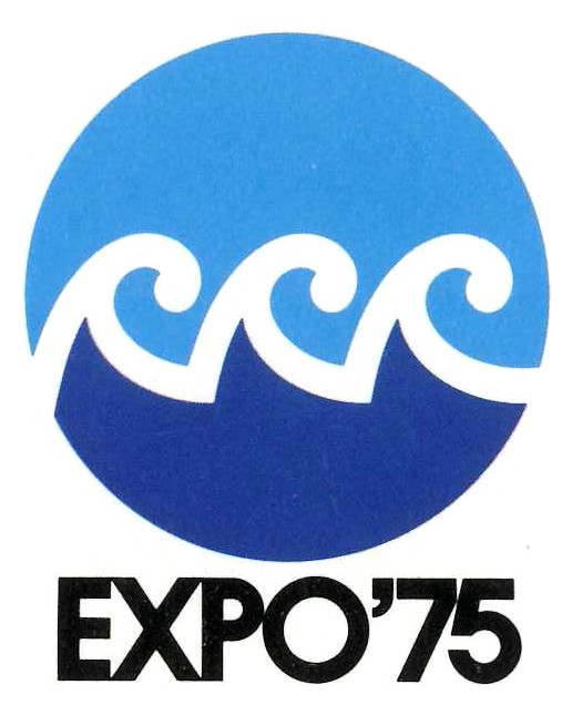 Expo 75 Logo